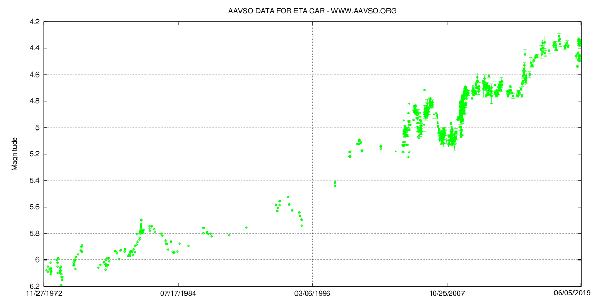 AAVSO observations in the V filter plotted as a light curve. The curve shows the gradual rise in brightness which has been occurring for the last few decades, overlaid with fluctuations approximately corresponding to the binary orbital period.